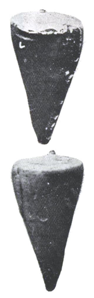 Apertural (upper) and abapertural view of the fossil shell of Conus abruptus.